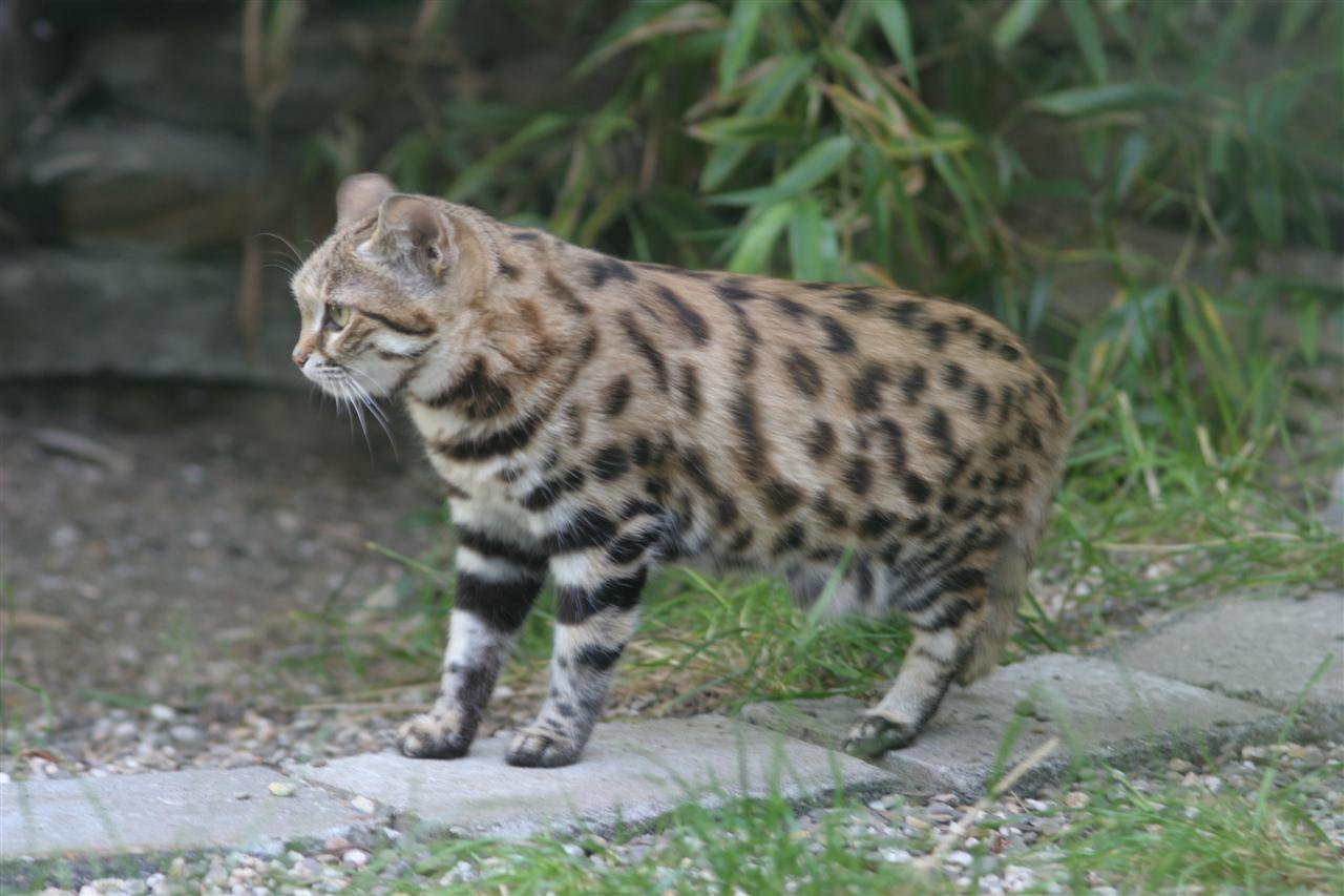 A black-footed cat (Felis nigripes) in the zoo of Wuppertal.